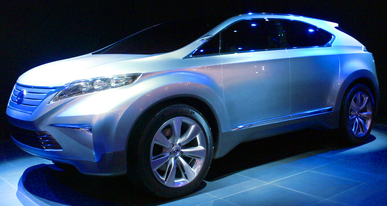 Lexus_LF-Xh photographed in Tokyo Motor Show 2007